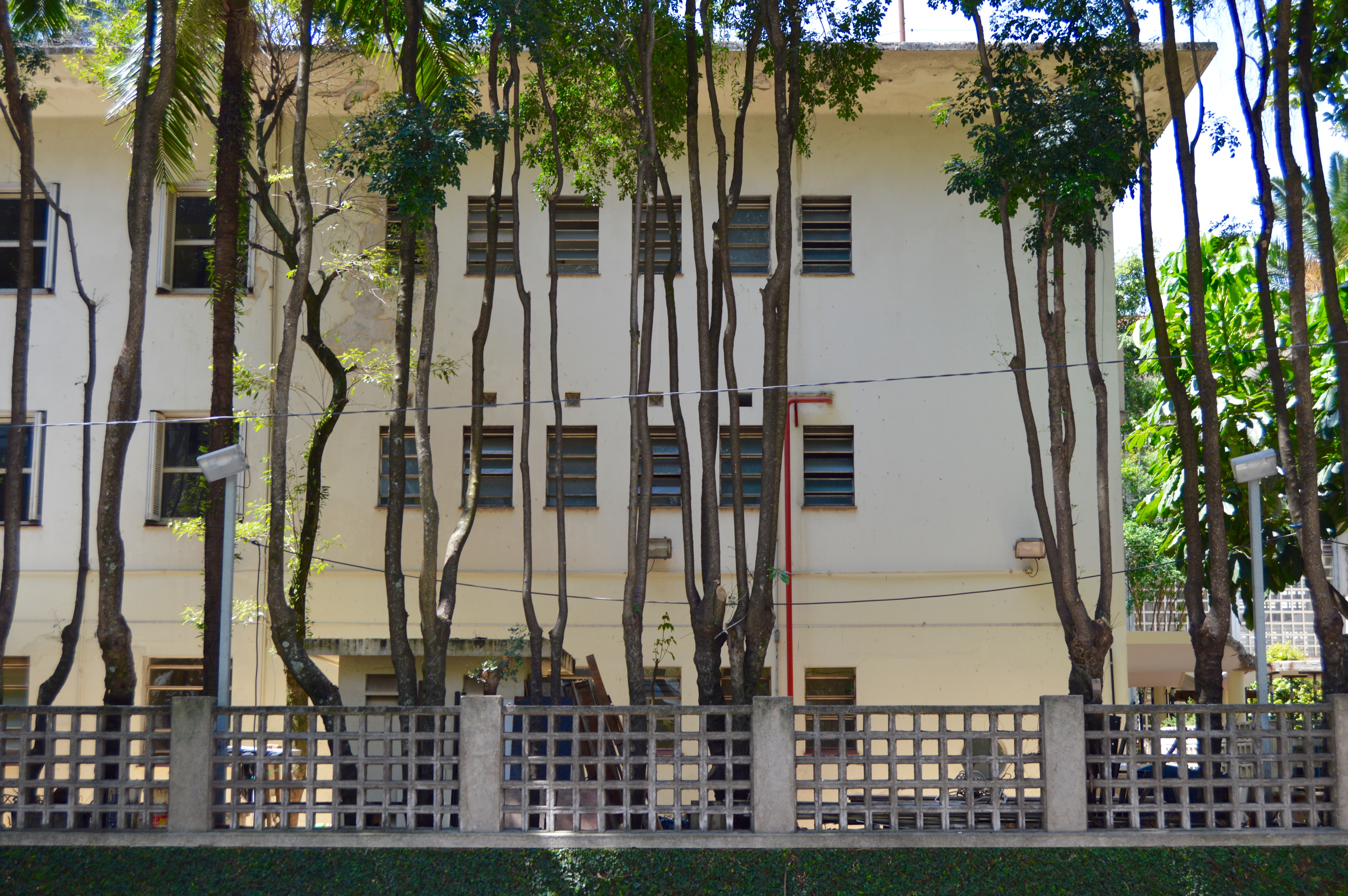 View from the Marquês de Paranaguá street of the first building